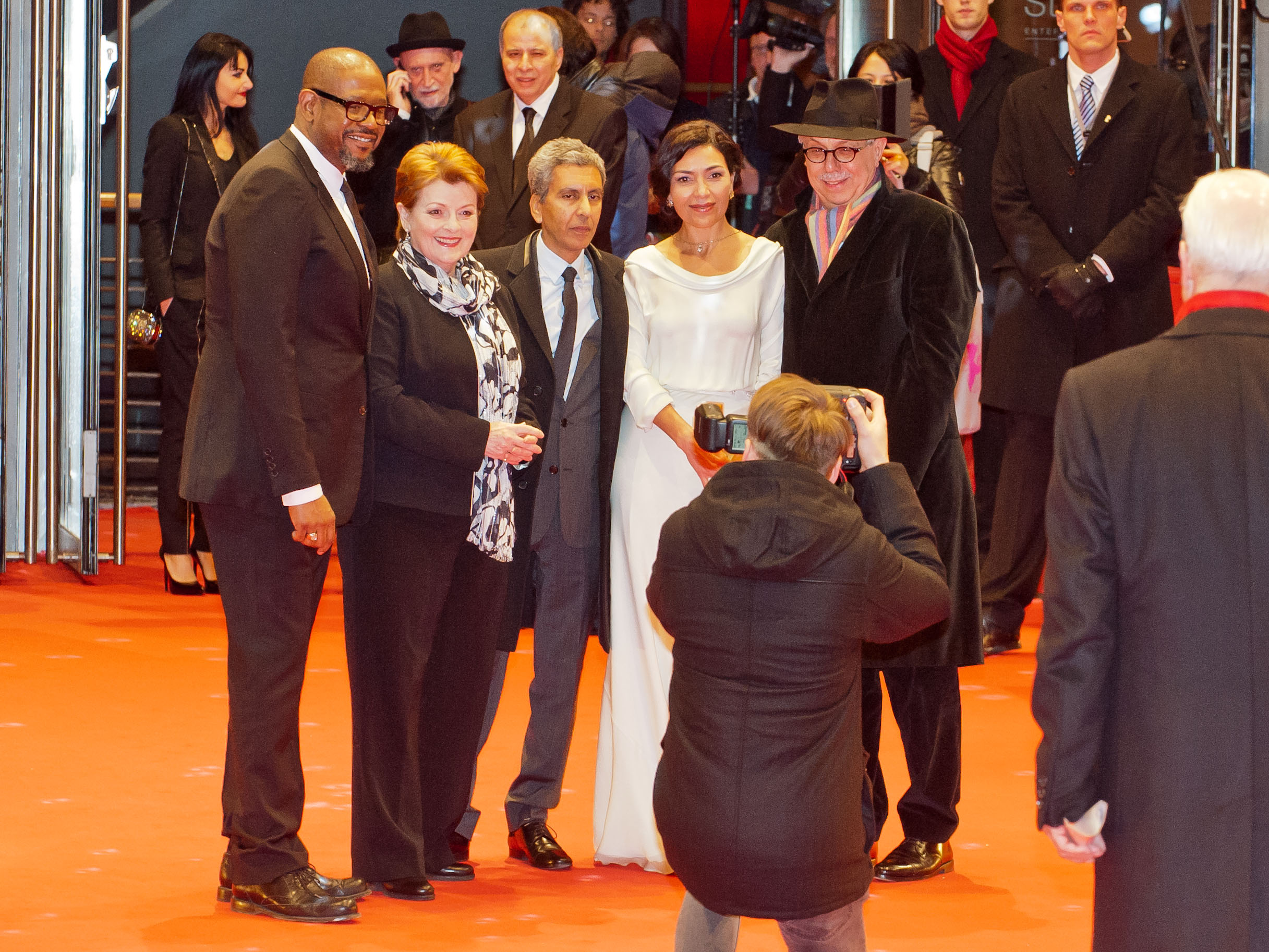 Cast and director at the premiere of the movie "Two Men in Town (La voie de l'ennemi)" with festival director Dieter Kosslick (right)